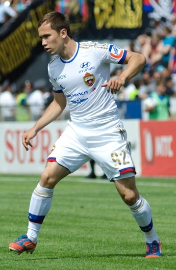 Ten Pyotr Alekseyevich